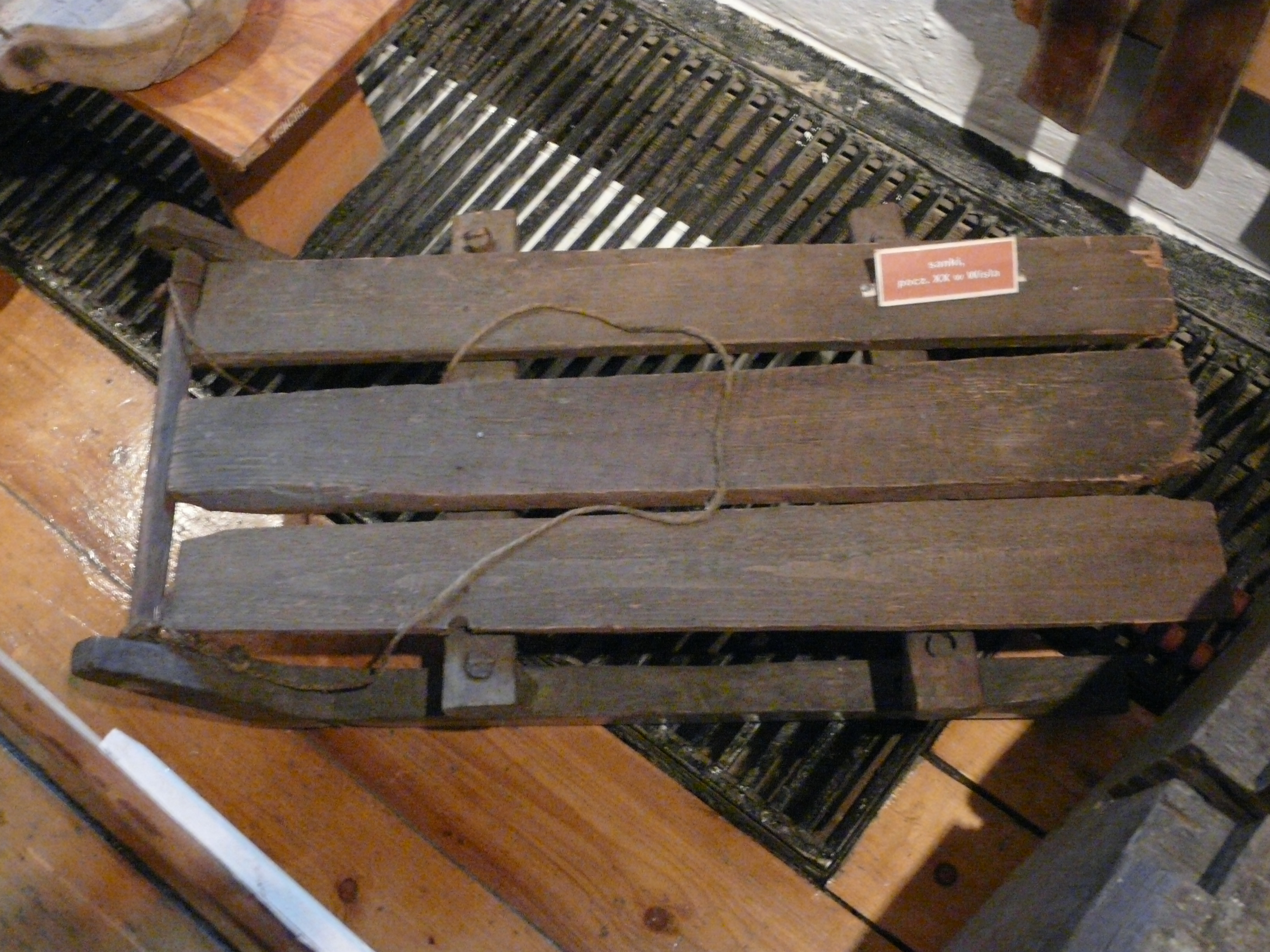 Wooden sleigh, Beskid Museum in Wisła, Poland